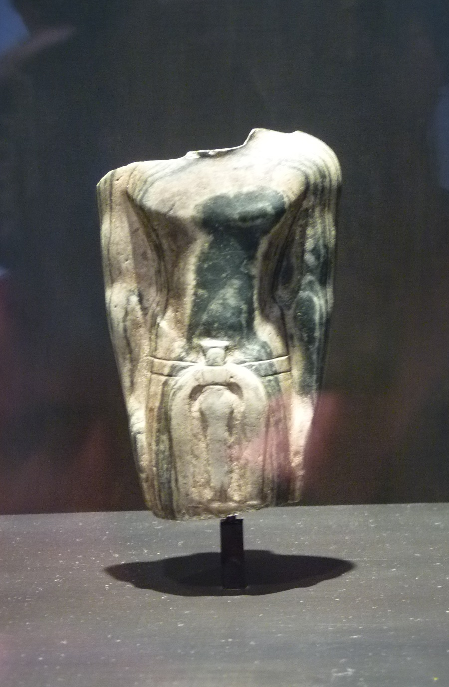 Torso of a man with the Horus name of King Scorpion below the left breast. Anorthositic gneiss, Protodynastic period, circa 3200 BCE. Munich, Staatliches Museum Ägyptischer Kunst, ÄS 7149.